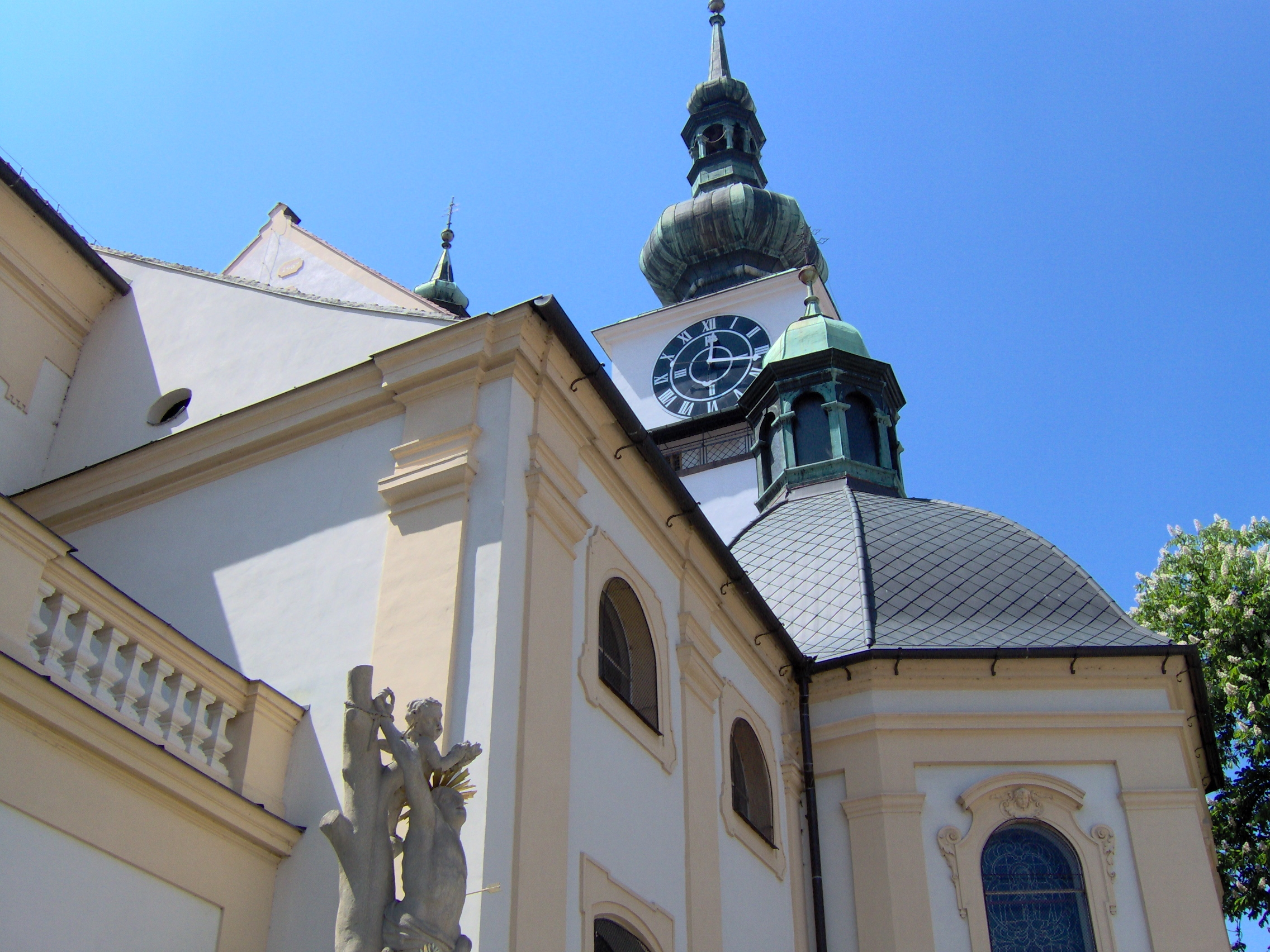 Church of St. Martin in Třebíč from backside